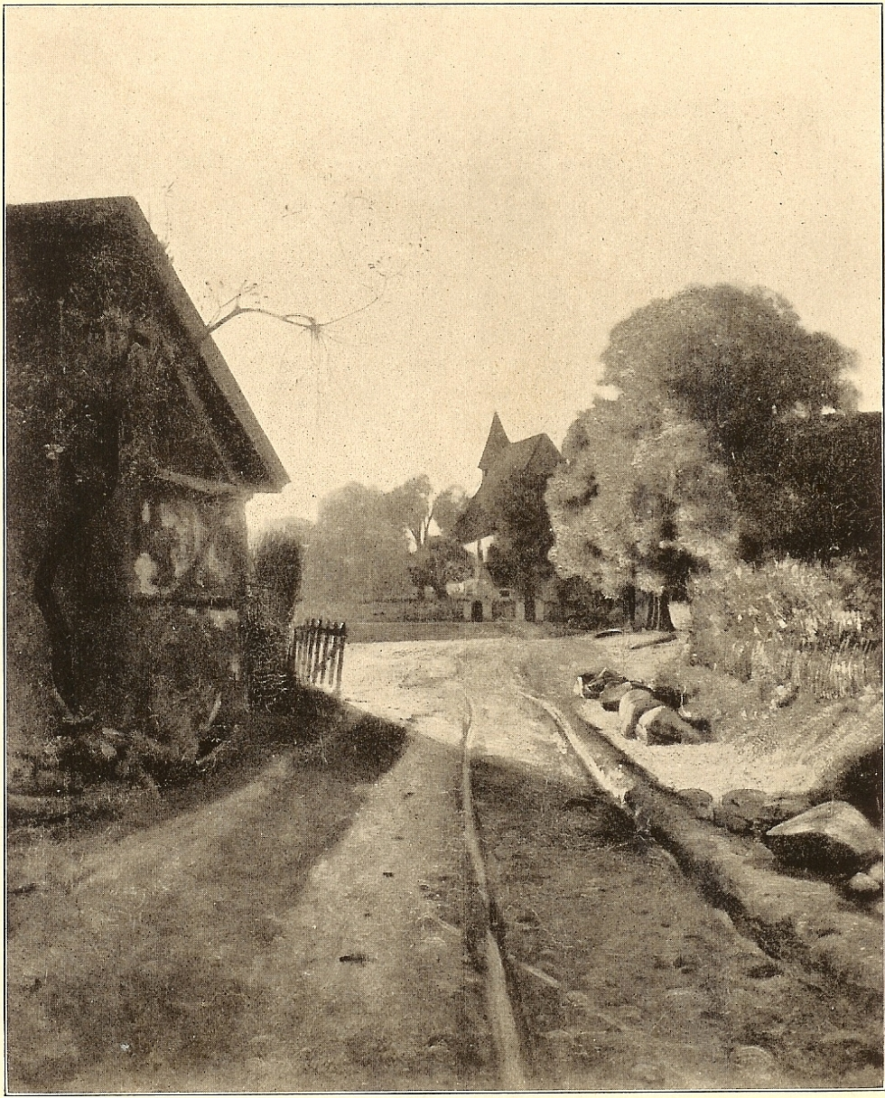 Otto Dörr (1831-1868) - Mecklenburg Country Road (Scene from the village Biestow near Rostock)